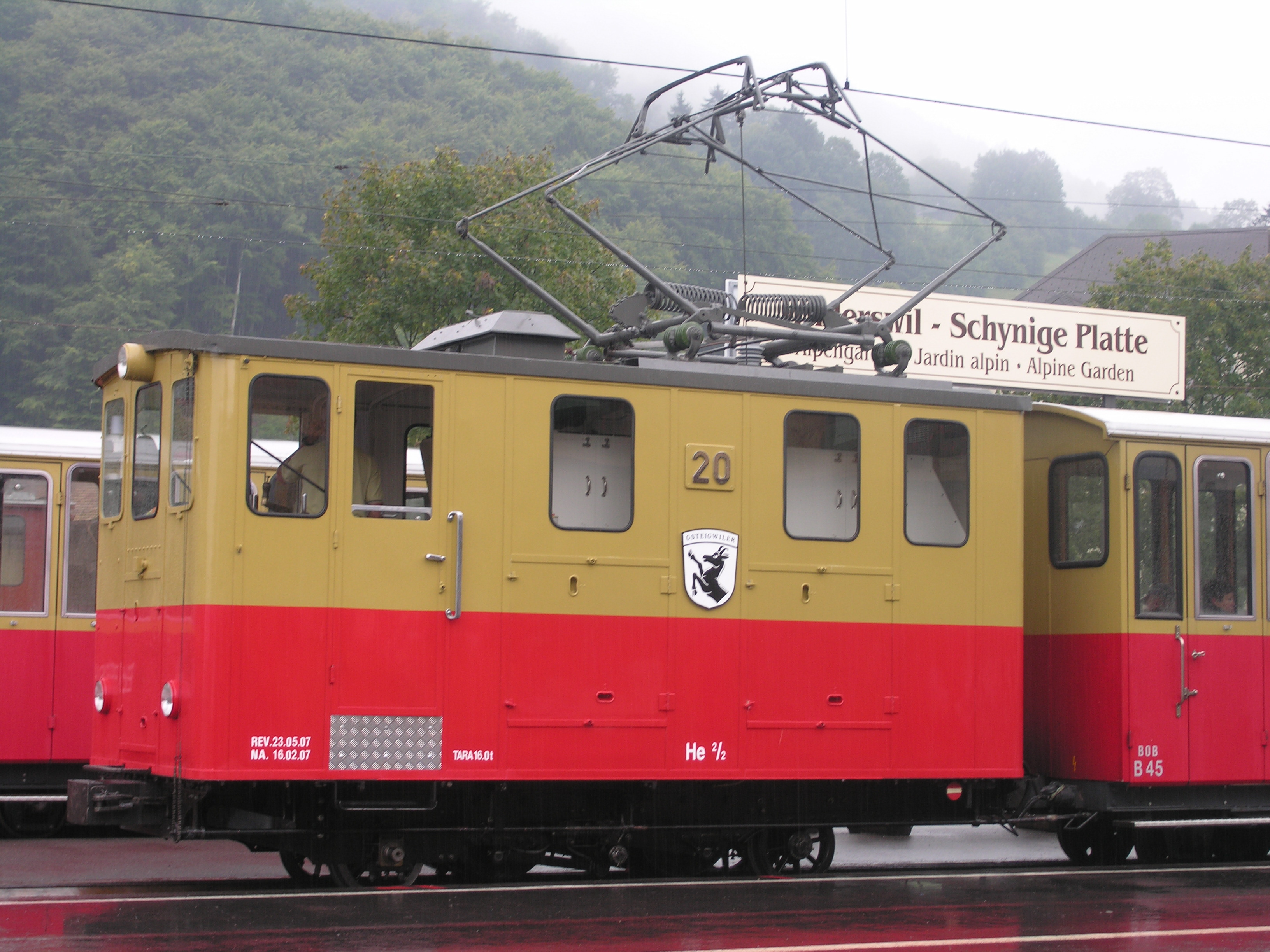 Schynige Platte cogwheel railway loco Edelweiss, build in 1911, was still in service at 2007.